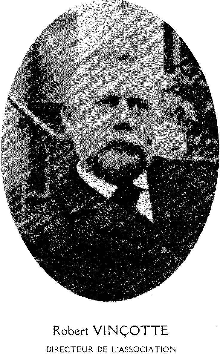 Scanned Picture of Robert Vinçotte, to be incorporated in the article "Robert Vinçotte"